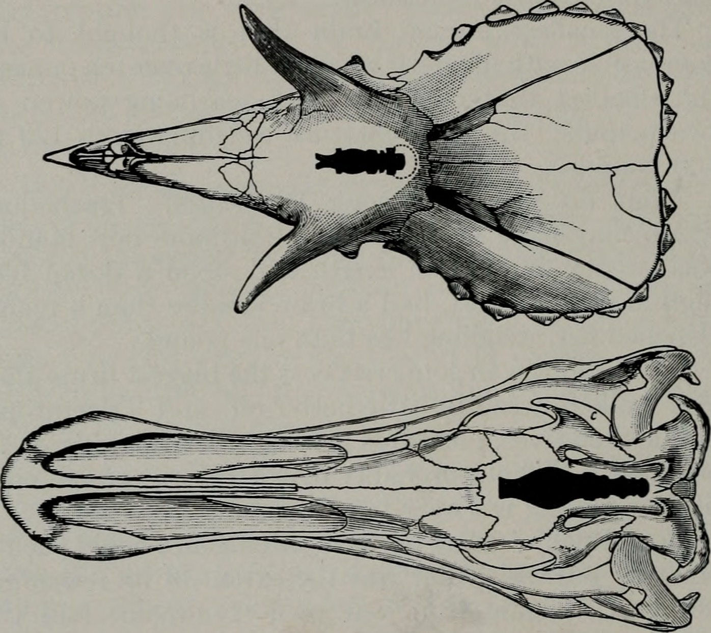 Title: Animals of the past; an account of some of the creatures of the ancient world Year: 1922 (1920s) Authors: Lucas, Frederic A. (Frederic Augustus), 1852-1929 Subjects: Paleontology Publisher: New York Text Appearing Before Image: 84 ANIMALS OF THE PAST quite small, in some places, particularly in the sacral region, it is subject to considerable enlargement. This is notably true of Stegosaurus, where the sacral en- largement is twenty times the bulk of the puny brain—a fact noted by Professor Marsh, and seized upon b)^ the newspapers, which announced that he had discovered a Dinosaur with a brain in its pelvis. Text Appearing After Image: Skulls of Triceratops and Trachodox Illustrating the small size of the brains shown in black. The brains of these animals, twice the bulk of an elephant, were the size of a man's fist. In their great variety of size and shape the Dinosaurs form an interesting parallel with the Marsupials of Australia. For just as these are, as it were, an epitome of the class of mammals, mimicking the herbivores, car- nivores, rodents and even monkeys, so there are carniv- orous and herbivorous Dinosaurs—Dinosaurs that